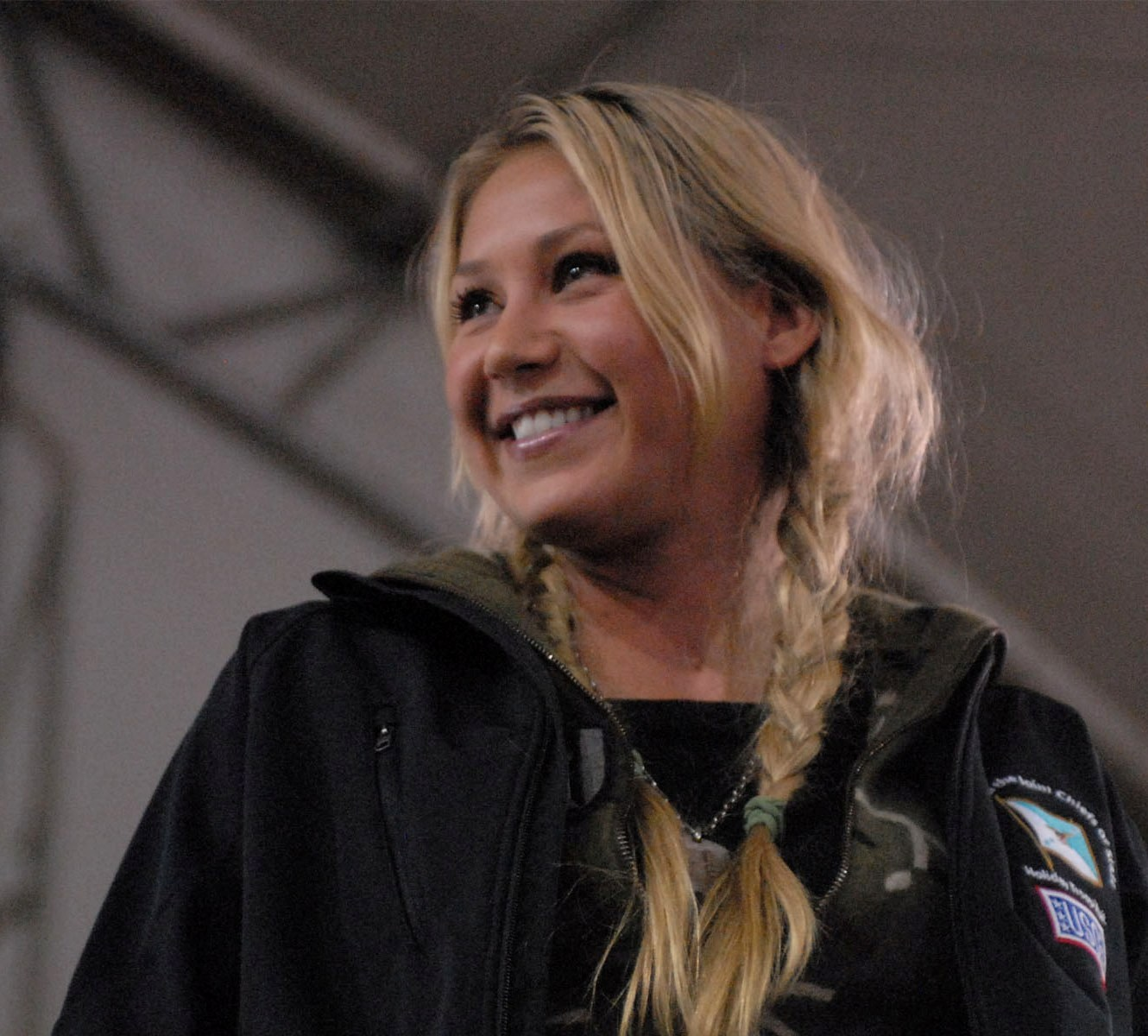 Tennis star Anna Kournikova interacts on stage before a crowd of U.S. Soldiers, Sailors, Airmen and Marines during a USO-sponsored tour at Forward Operating Base Sharana, December 15, 2009.